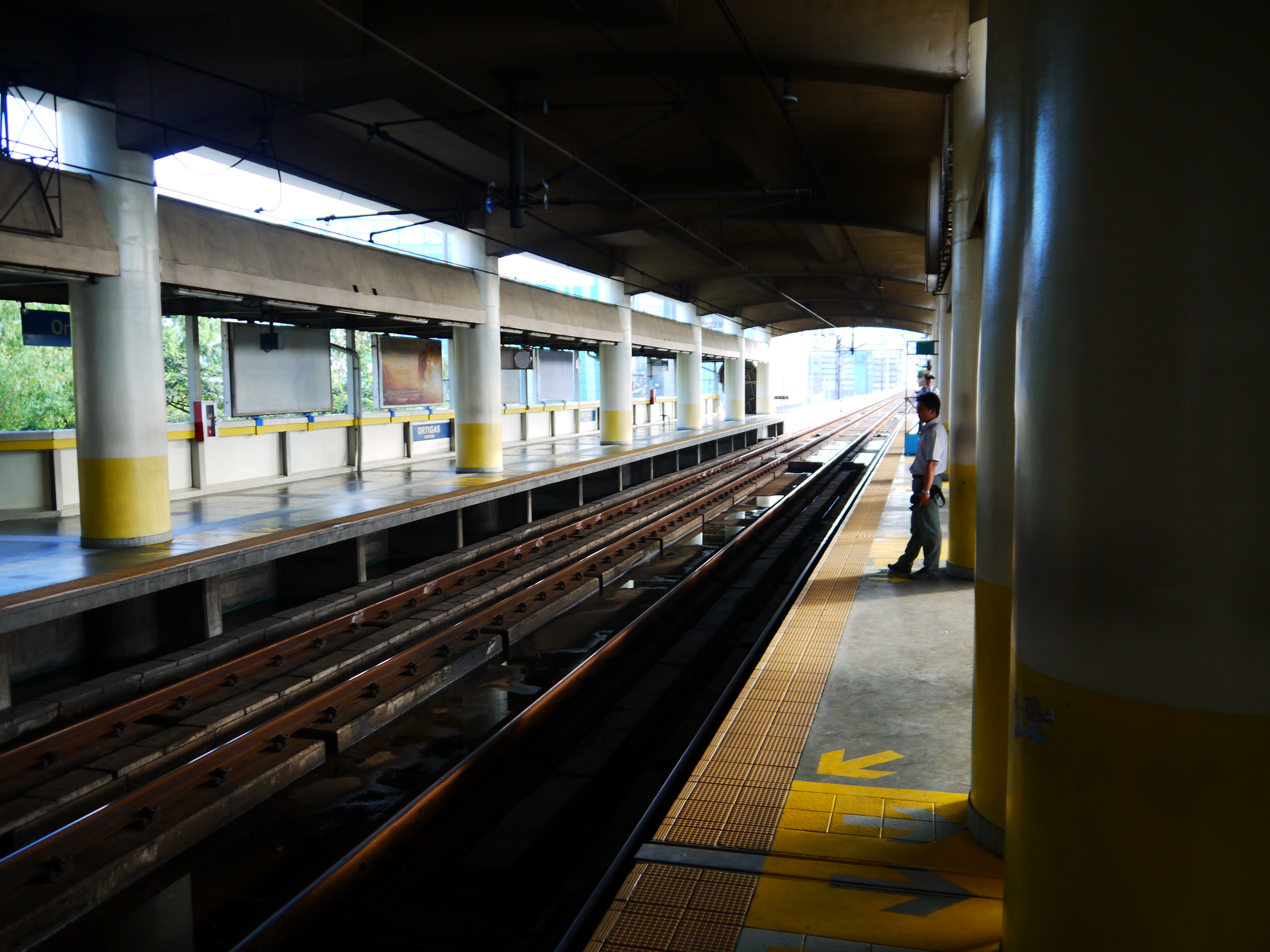 MRT-3 Ortigas Station Platform while waiting